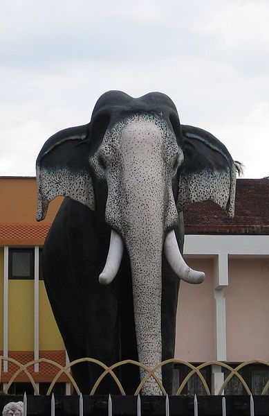 This is merely a side-cropped version of Wiki-commons File:Guruvayoor Kesavan Statue , which is described as "Statue of Guruvayur Keshavan at Guruvayur"